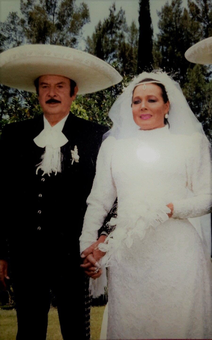 Antonio Aguilar and Flor Silvestre on their wedding day.